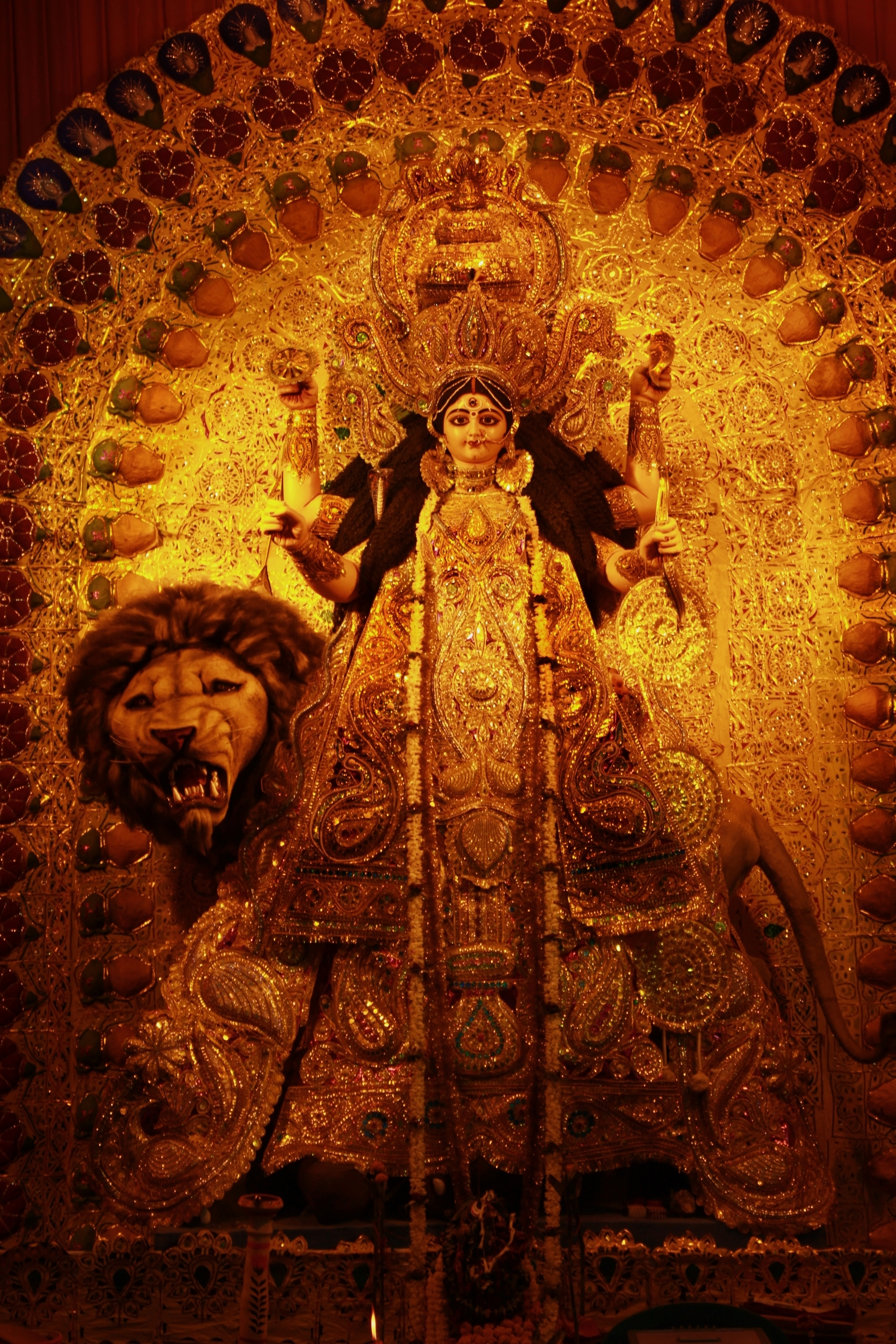 Jagadhatri puja at Bhurkunditala in Mashila village, Howrah.